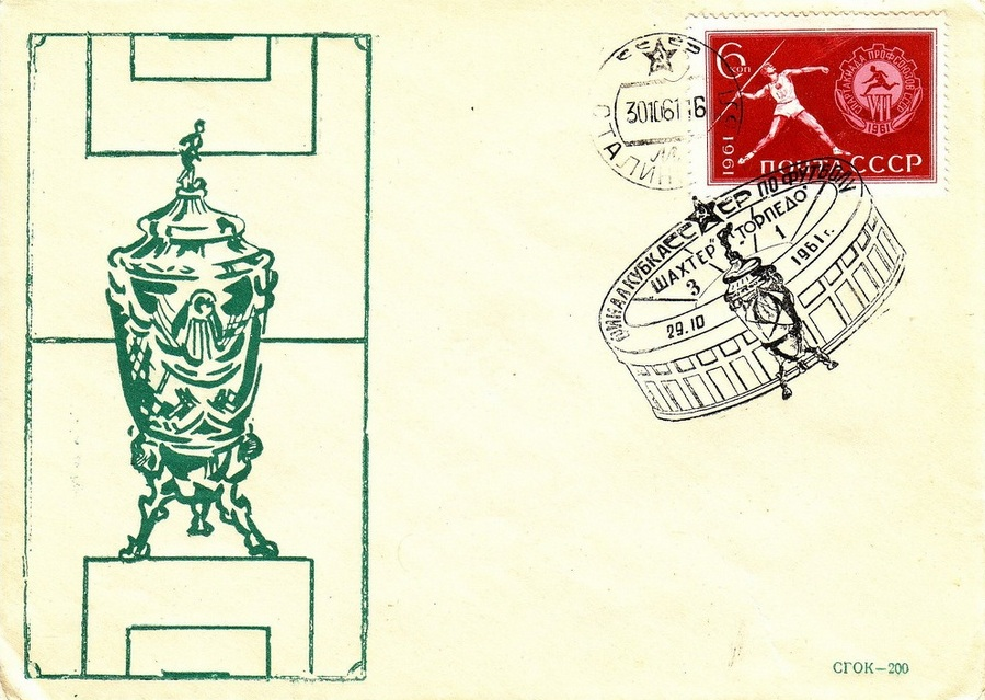 Shakhtar Donetsk v Torpedo Moscow USSR Cup Final 1961 29/10/61. SG2603. Illustrated cover that commemorates the 1961 USSR Cup Final. Shakhtar (шахтер) beat Torpedo (торпедо) 3-1. The stamp is a commemorative issue for the 7th Spartakiad Games 1961.